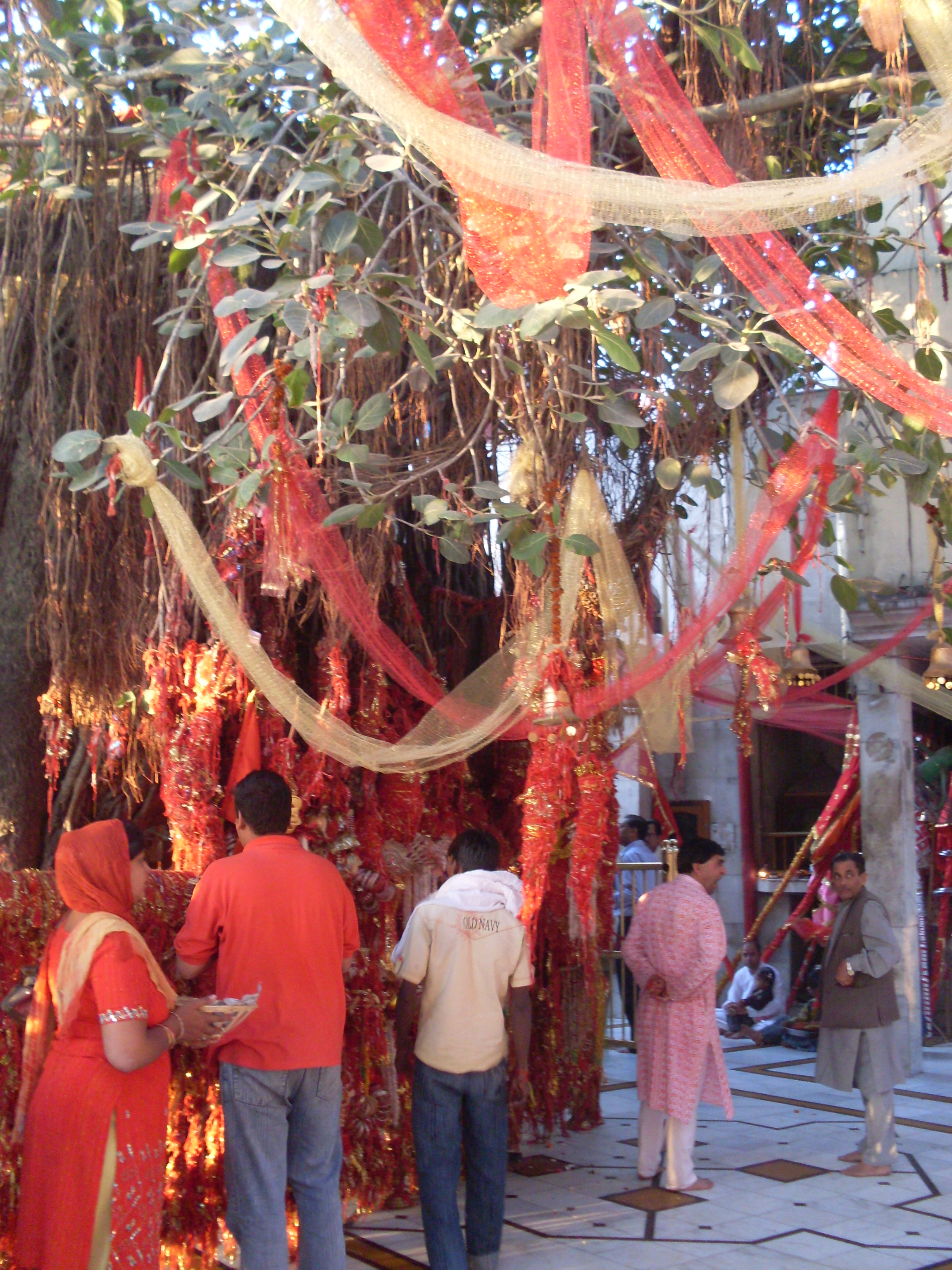 Devotees tie red crimson threads on making a wish, and come back and untie when fulfilled. Chintpurni (Hindi: चिन्तपुरनी) is a place of pilgrimage in India. Chintpurni is located in Una district Himachal Pradesh state, surrounded by the western Himalaya in the north and east in the smaller Shiwalik (or Shivalik) range bordering the state of Punjab. The temple dedicated to Mata Chintpurni Devi is located in District Una of Himachal Pradesh. Mata Chintpurni Devi is also known as Mata Shri Chhinnamastika Devi. Devotees have been visiting this Shaktipeeth for centuries to pray at the lotus feet of Mata Shri Chhinnamastika Devi.